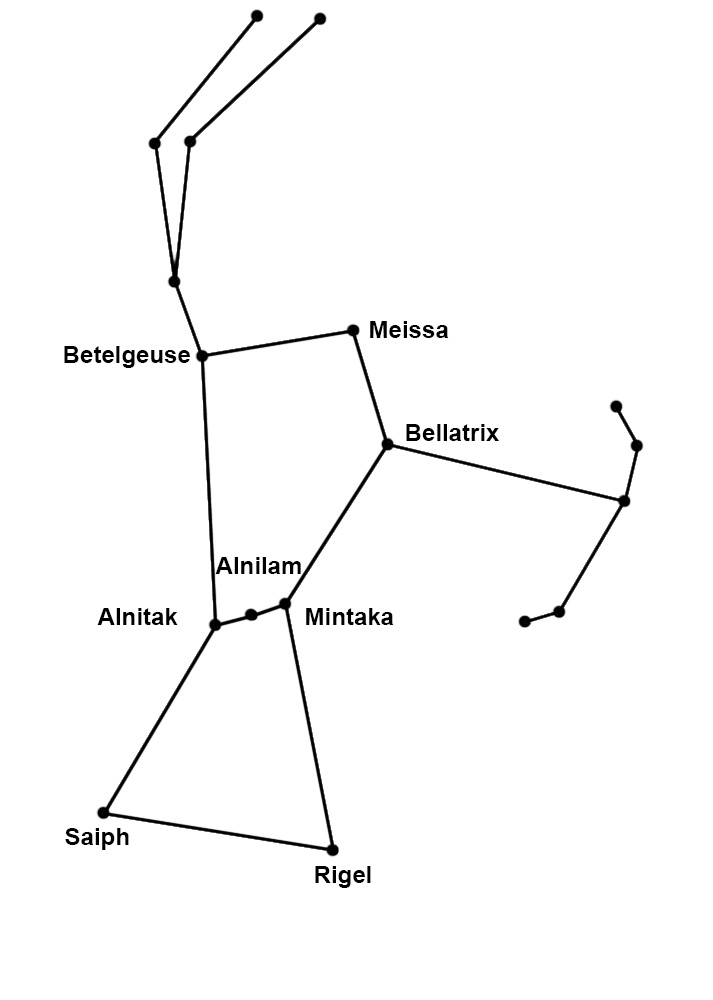 Stars in Orion constellation (connected and labelled)